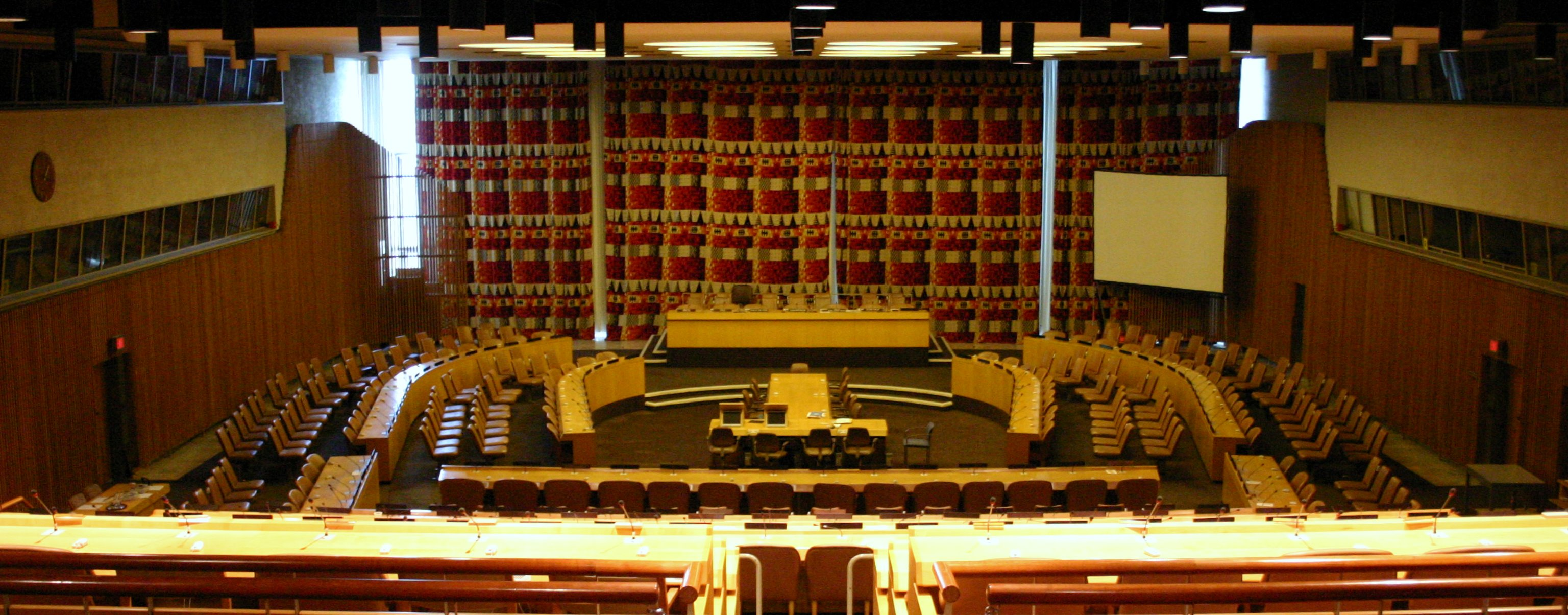 Room of the UN Economic and Social Development Council. UN headquarters, New York City.